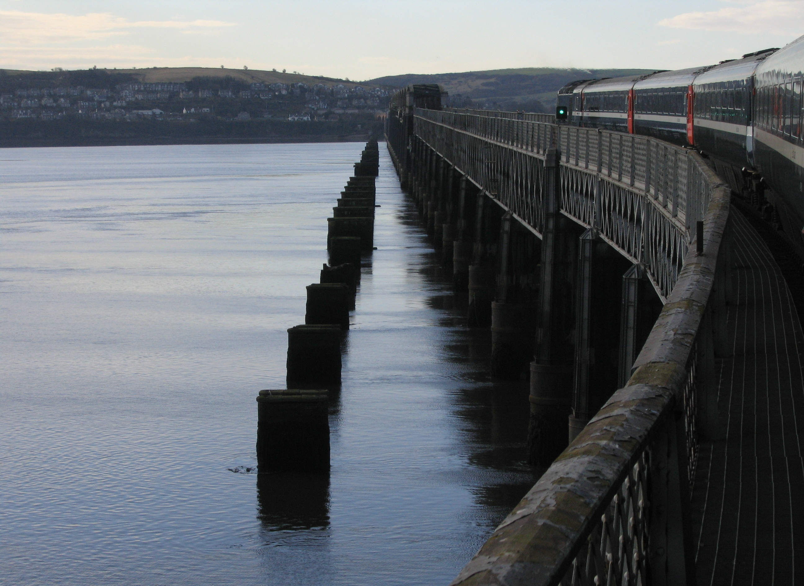 Tay Bridge seen from a passing train travelling South with the old bridge piers visible to the left.